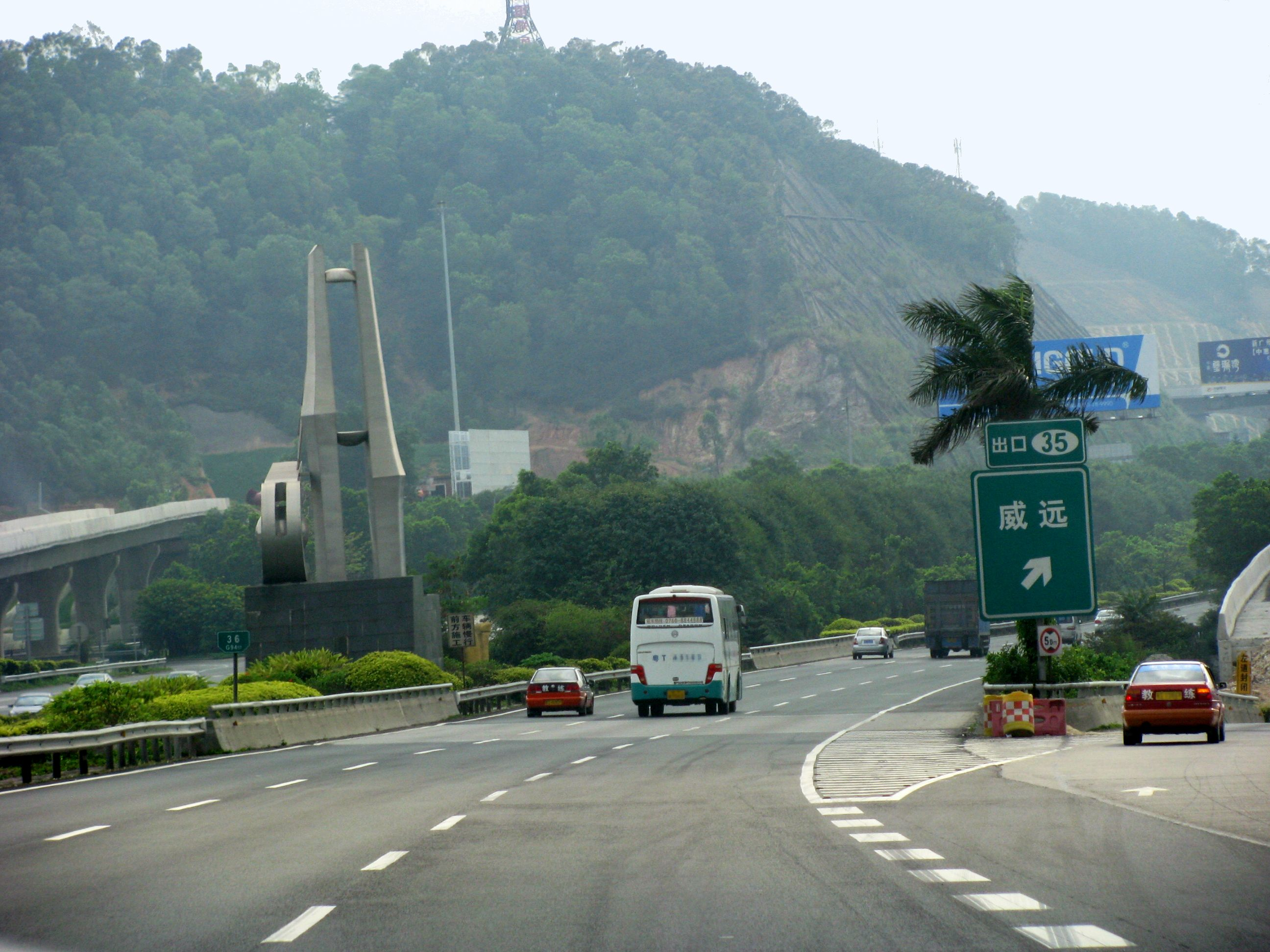 The G9411 Dongguan–Foshan Expressway in China.